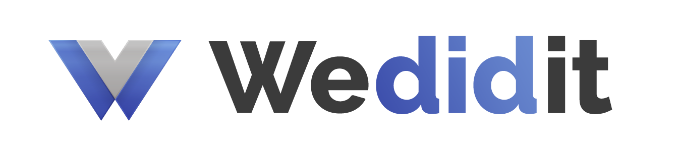 wedidit Logo